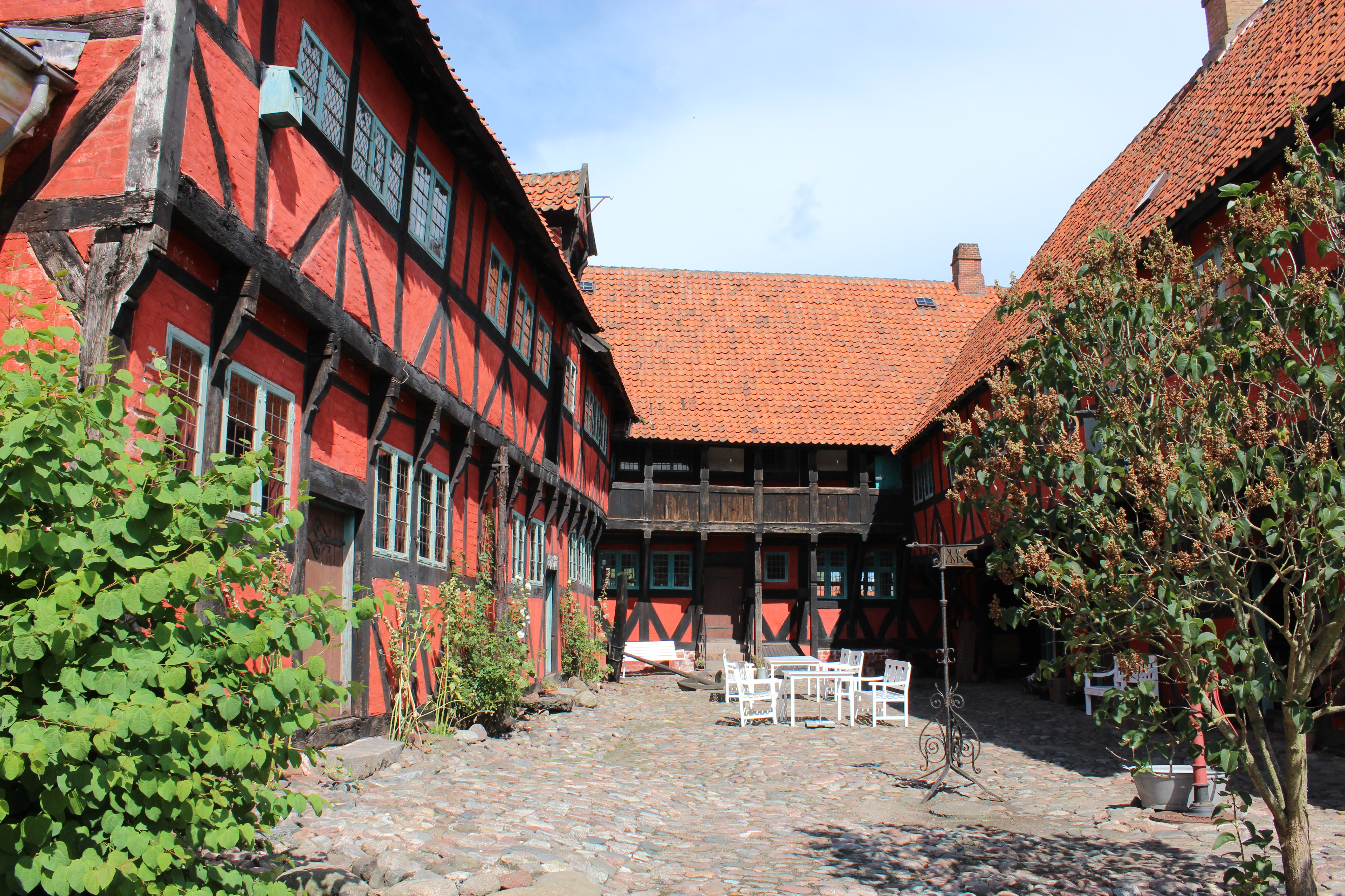 Courtyard in Mads Lerches Gård.